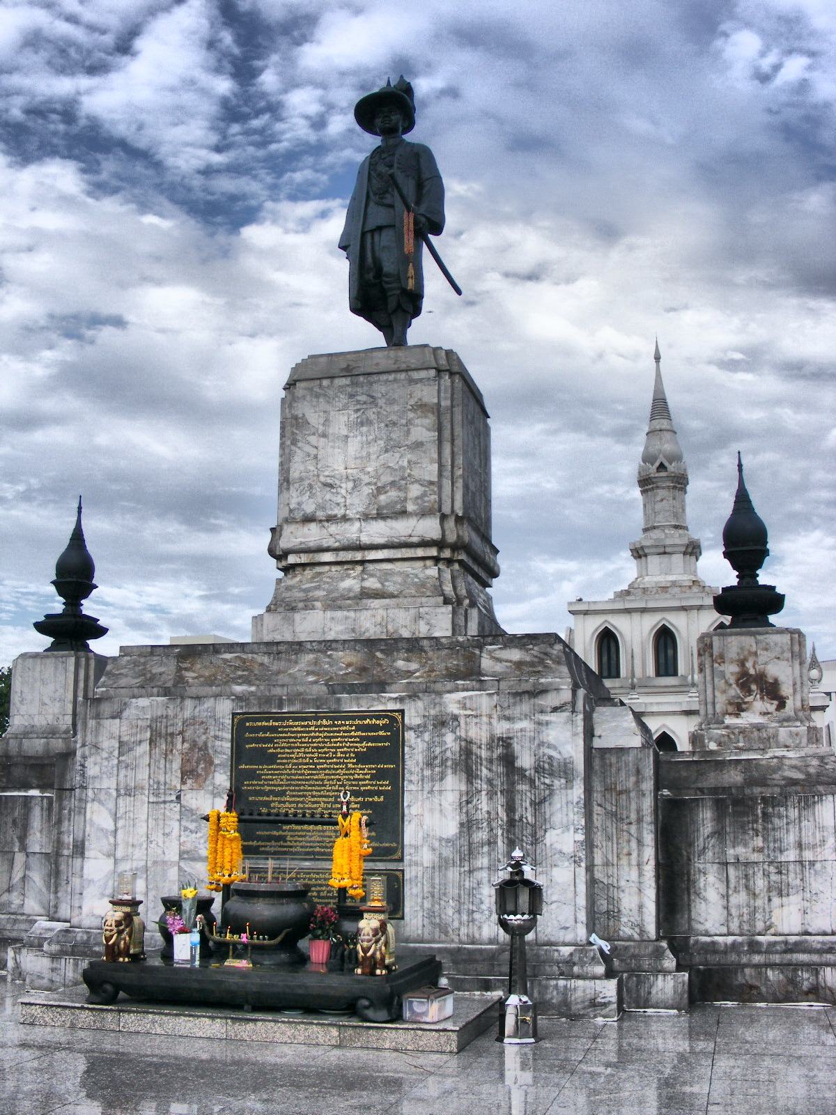 Monument of King Rama VII at Sukhothai Thammathirat Open University